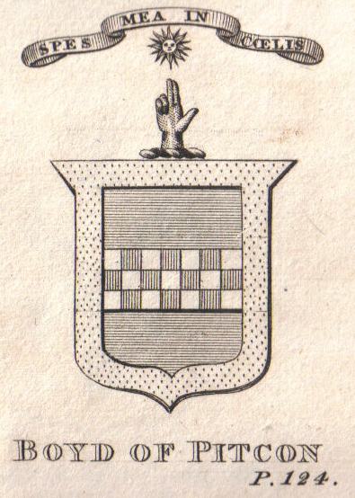 The Coat of Arms of the Boyds of Pitcon from Dalry, North Ayrshire, Scotland.